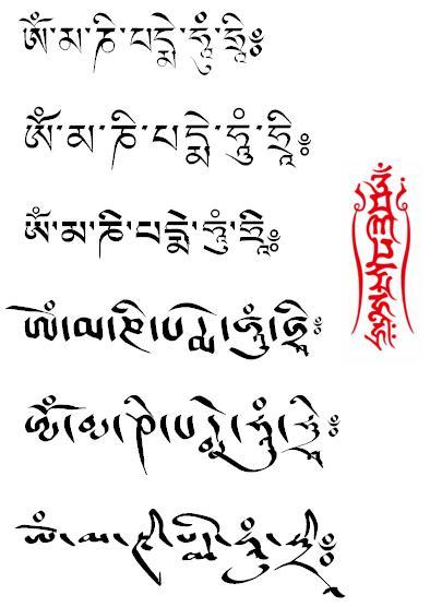 The expression "Himalayas" in six different Tibetan script modern styles commonly used by Tibetans.